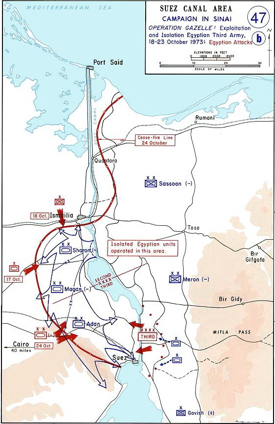 Image of Operation Gazelle (also known as Operation Abiray-Lev or Operation Stouthearted Men) during the Yom Kippur War.